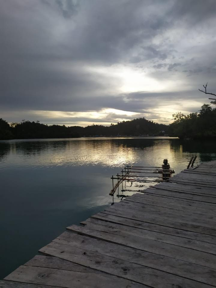 sarwandori lake is a beautiful lake, and take a picture with marice